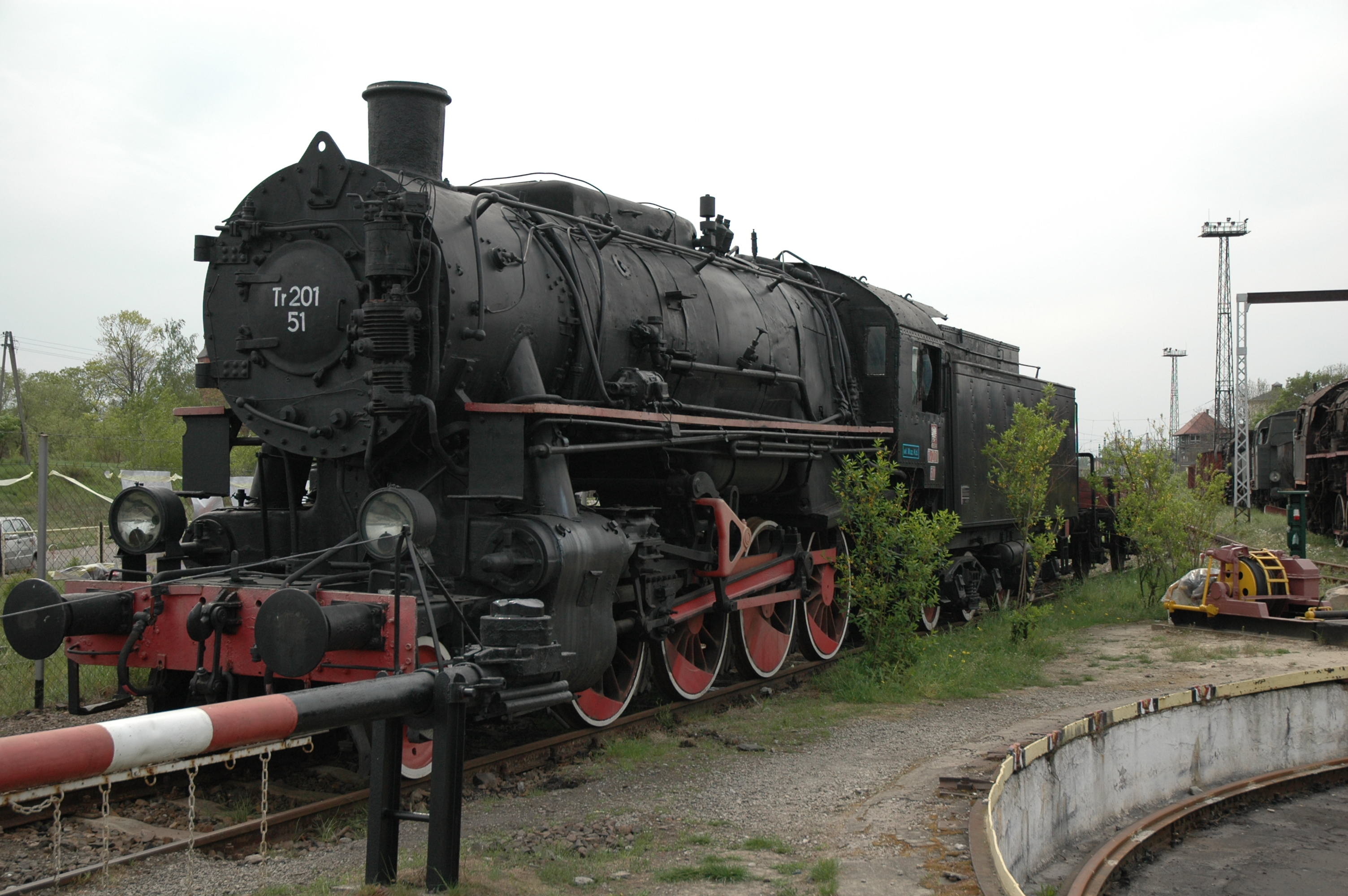 Poland, Jaworzyna Slaska - Museum of Industry and Railway in Lower Silesia - Tr201 steam locomotive.